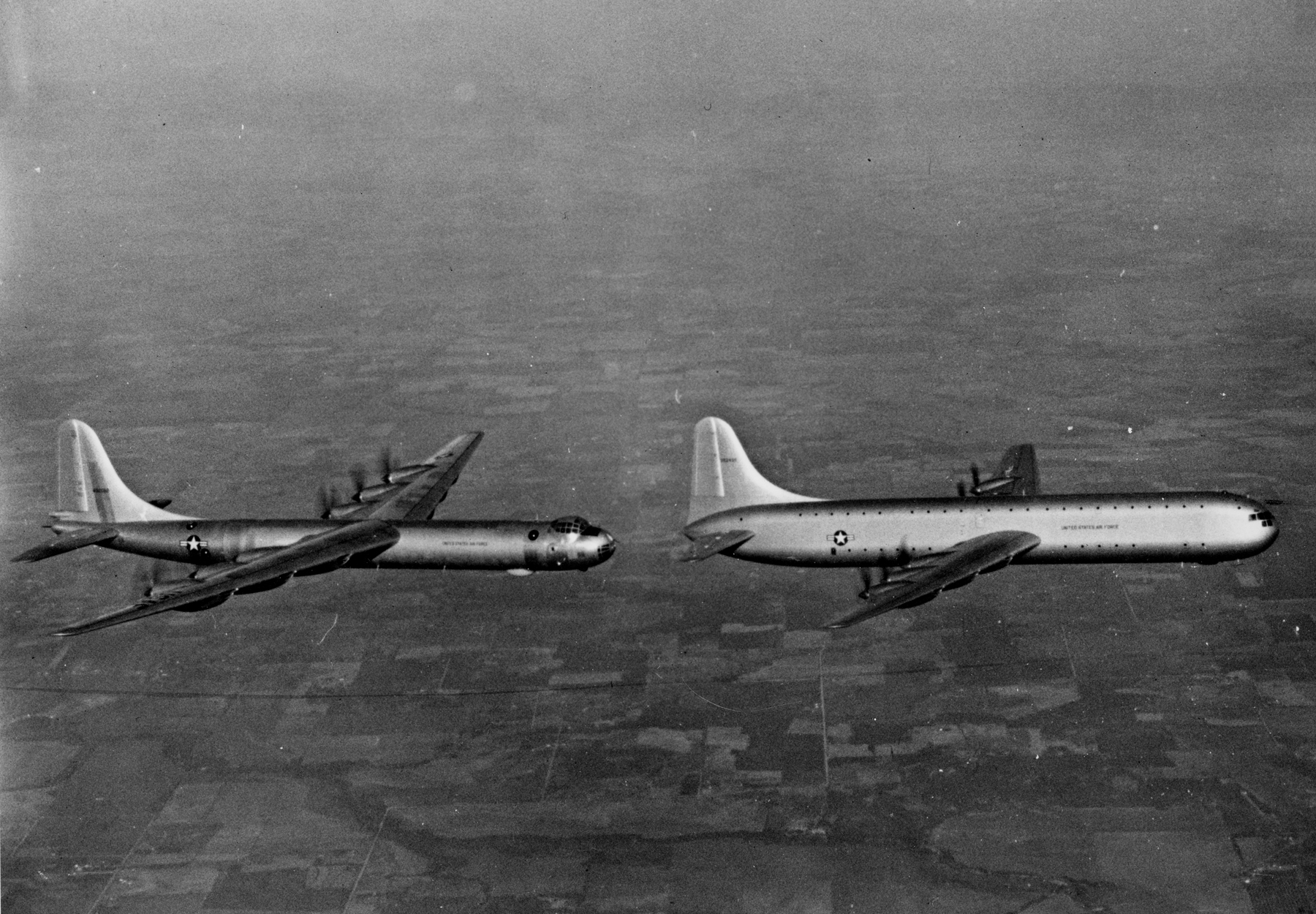 The single U.S. Air Force Convair XC-99 (s/n 43-52436) in flight with a Convair B-36B-10-CF Peacemaker (s/n 44-92062).